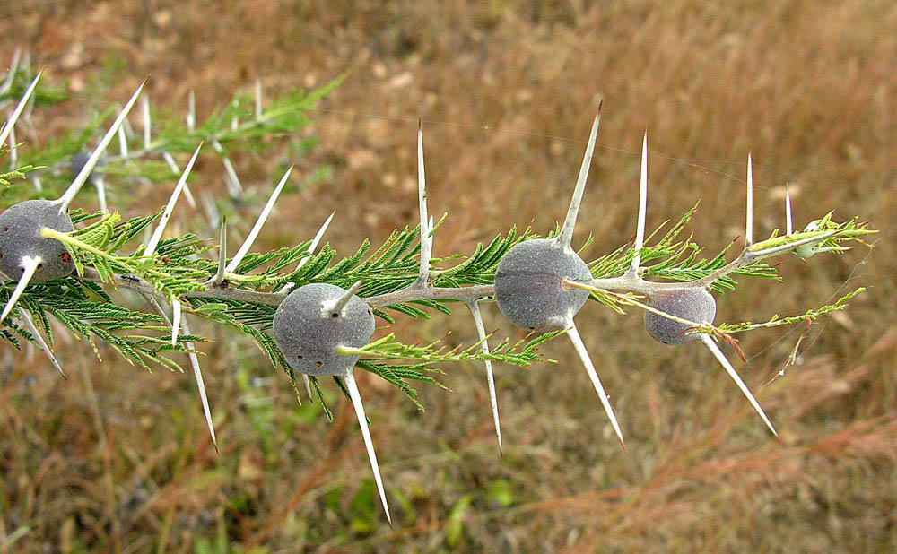 The swellings are domatia housing myrmecophile ants which protect the tree. An eastern Africa species, also known as Swollen Thorn and placed in the Vachellia genus by some. Photo from Songea region, Tanzania.